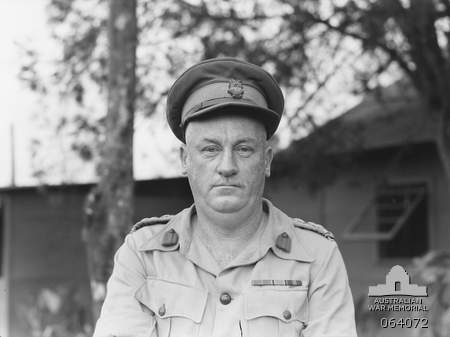 BRIGADIER W.E. CREMOR, OBE., ED., CORPS COMMANDER ROYAL ARTILLERY, 1ST AUSTRALIAN CORPS. BARRINE, QUEENSLAND, AUSTRALIA. 1944-02-04.